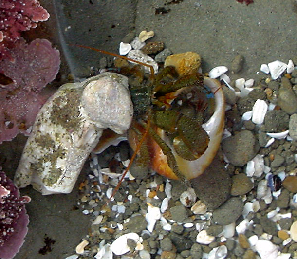 A hermit crab in unusual shell fighting other hermit crab for a new home.